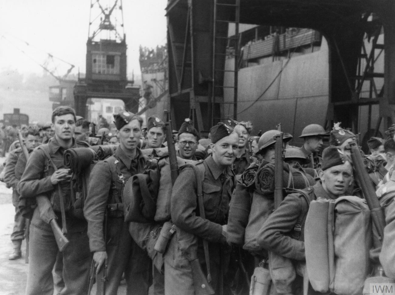 Dunkirk and the Retreat From France 1940 British troops embarking onto ships during the evacuation from France, June 1940.